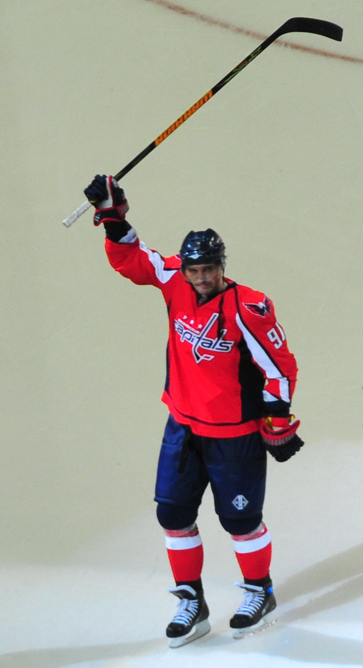 Sergei Fedorov - star of the game against the Carolina Hurricanes